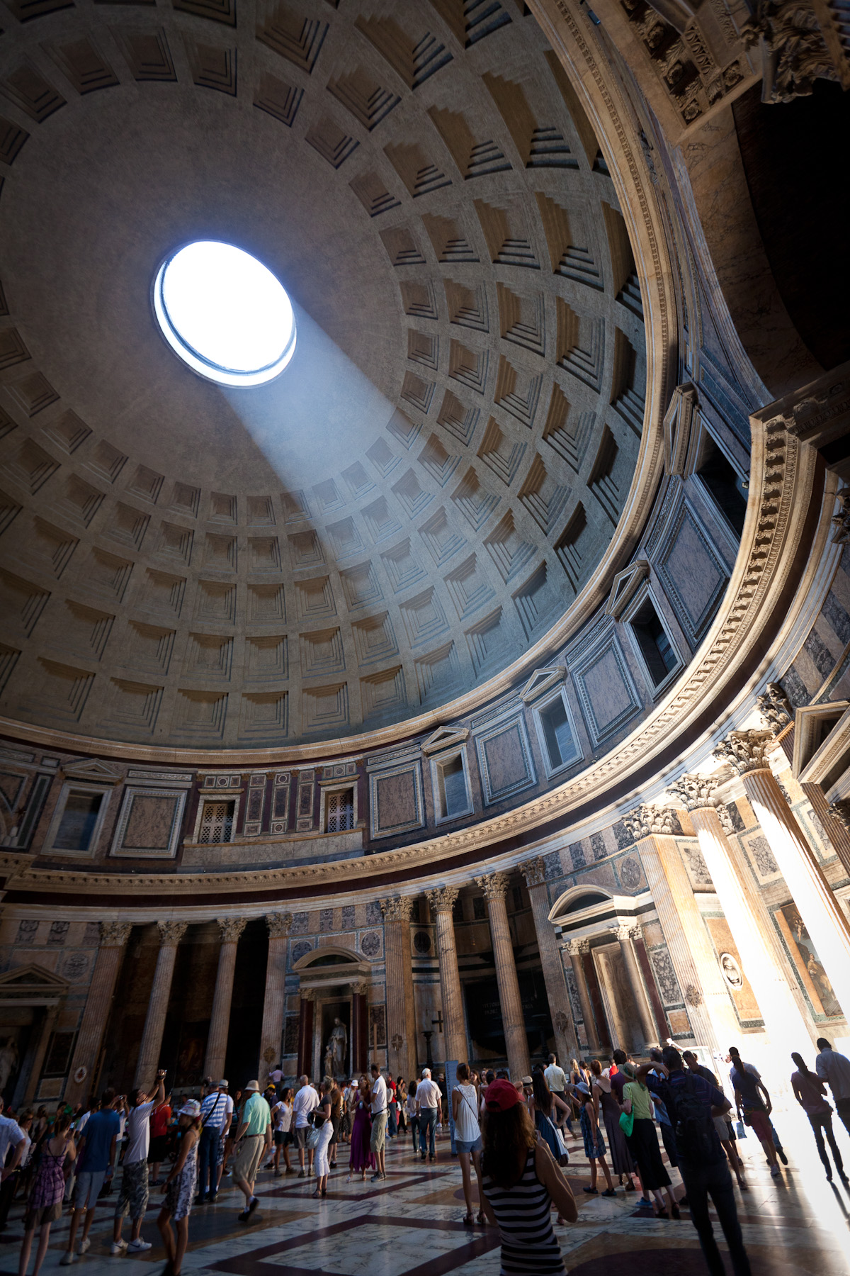 Roma - Pantheon